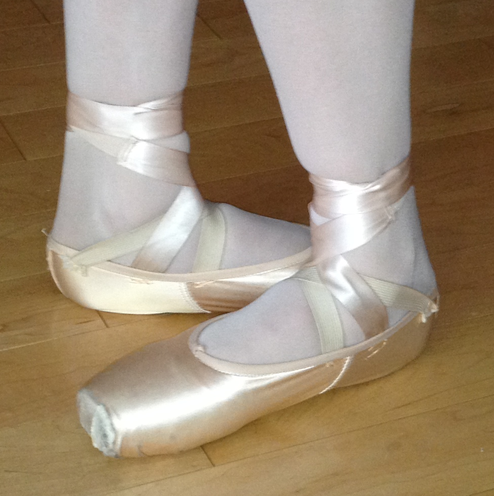 A ballet dancer demonstrating Fifth Position.